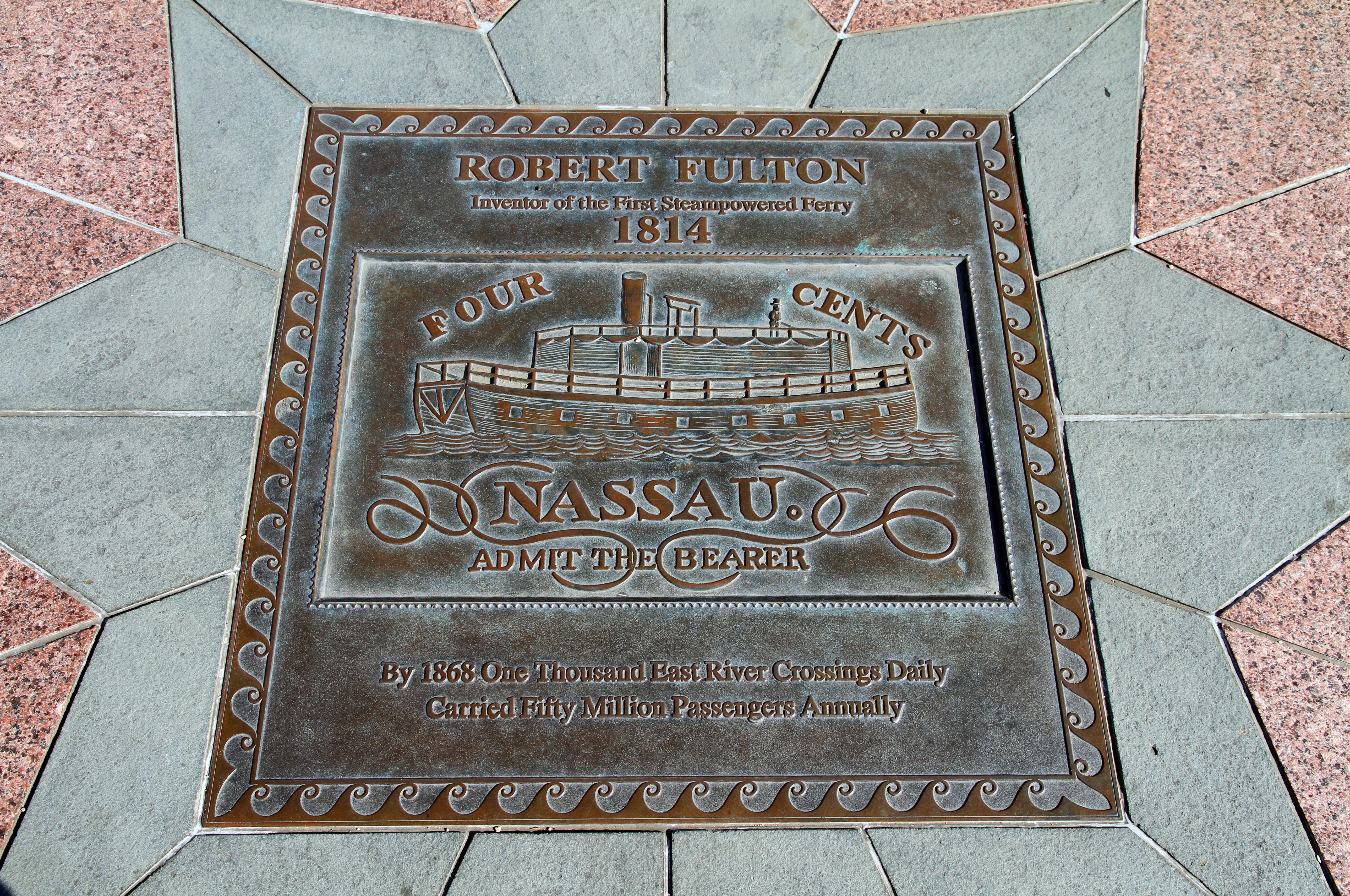 East River Ferry